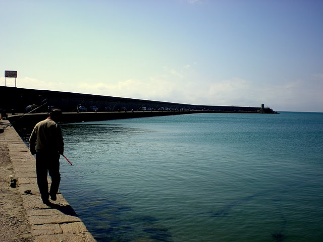 Burriana's Harbour.